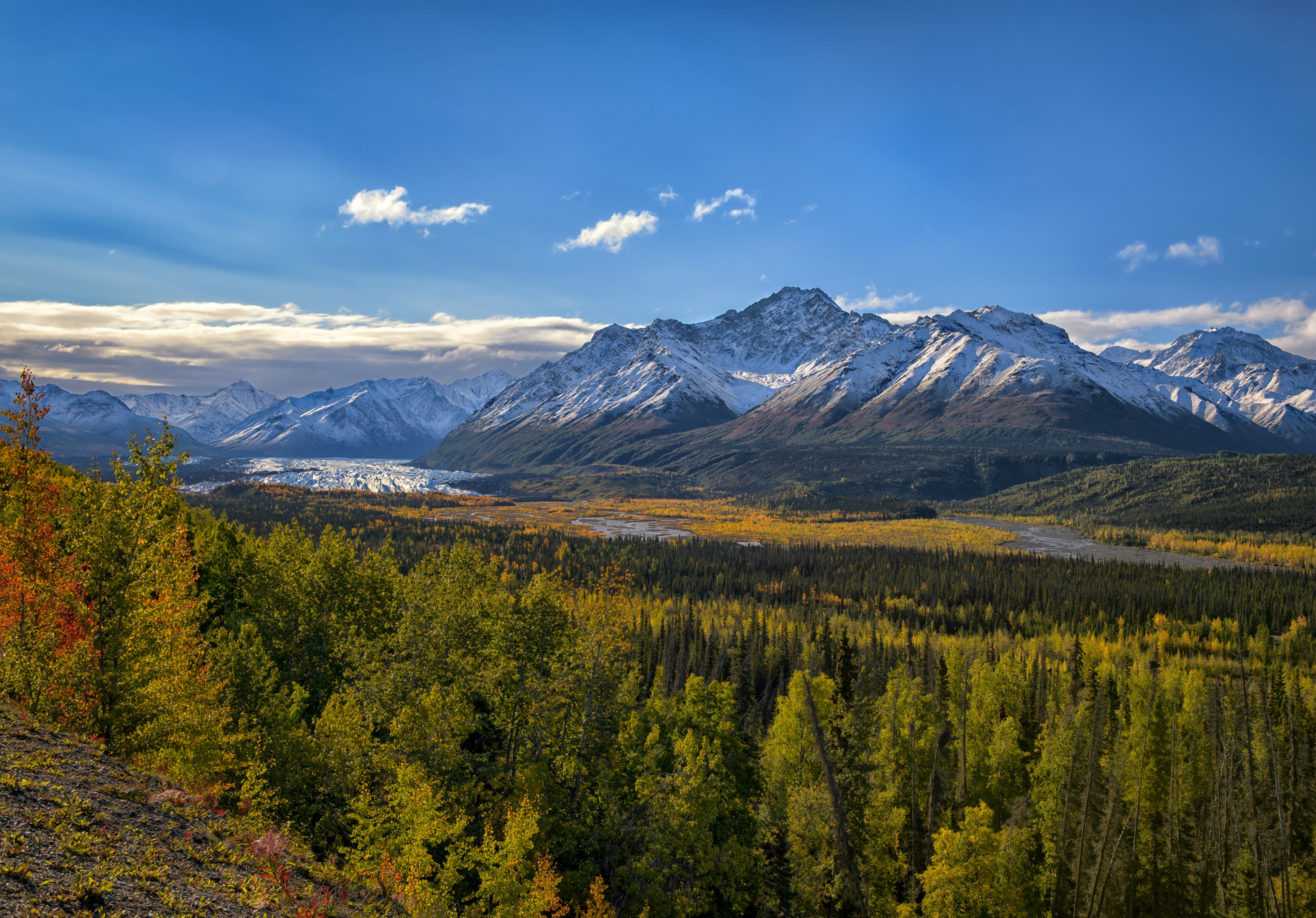 Mt Wickersham, a predominant peak of the Chugach mountain range, rises next to the Matanuska Glacier on a fine August day.